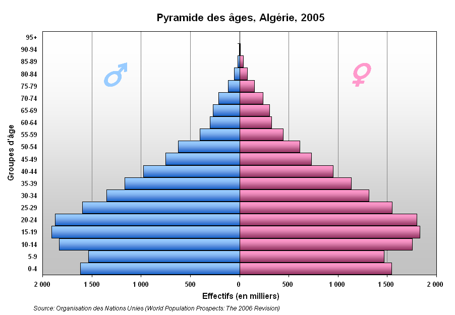 Algeria Population pyramid, 2005